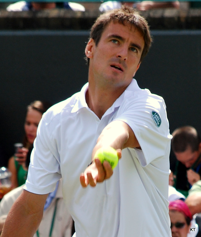 Tommy Robredo during his 1st round match with Yen-Hsun Lu. Day 2 of Wimbledon 2011.